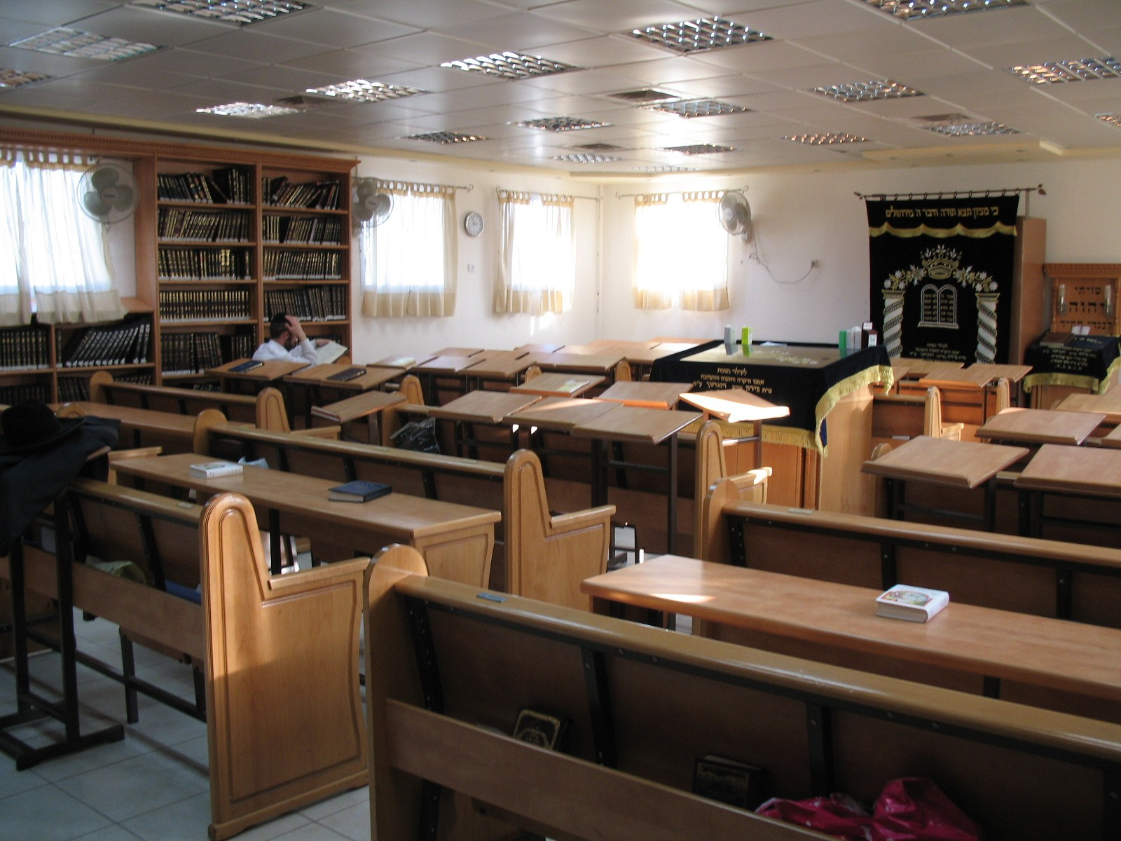 Interior of a "caravan shul" (synagogue housed in an aluminum shell) in Jerusalem, Israel.